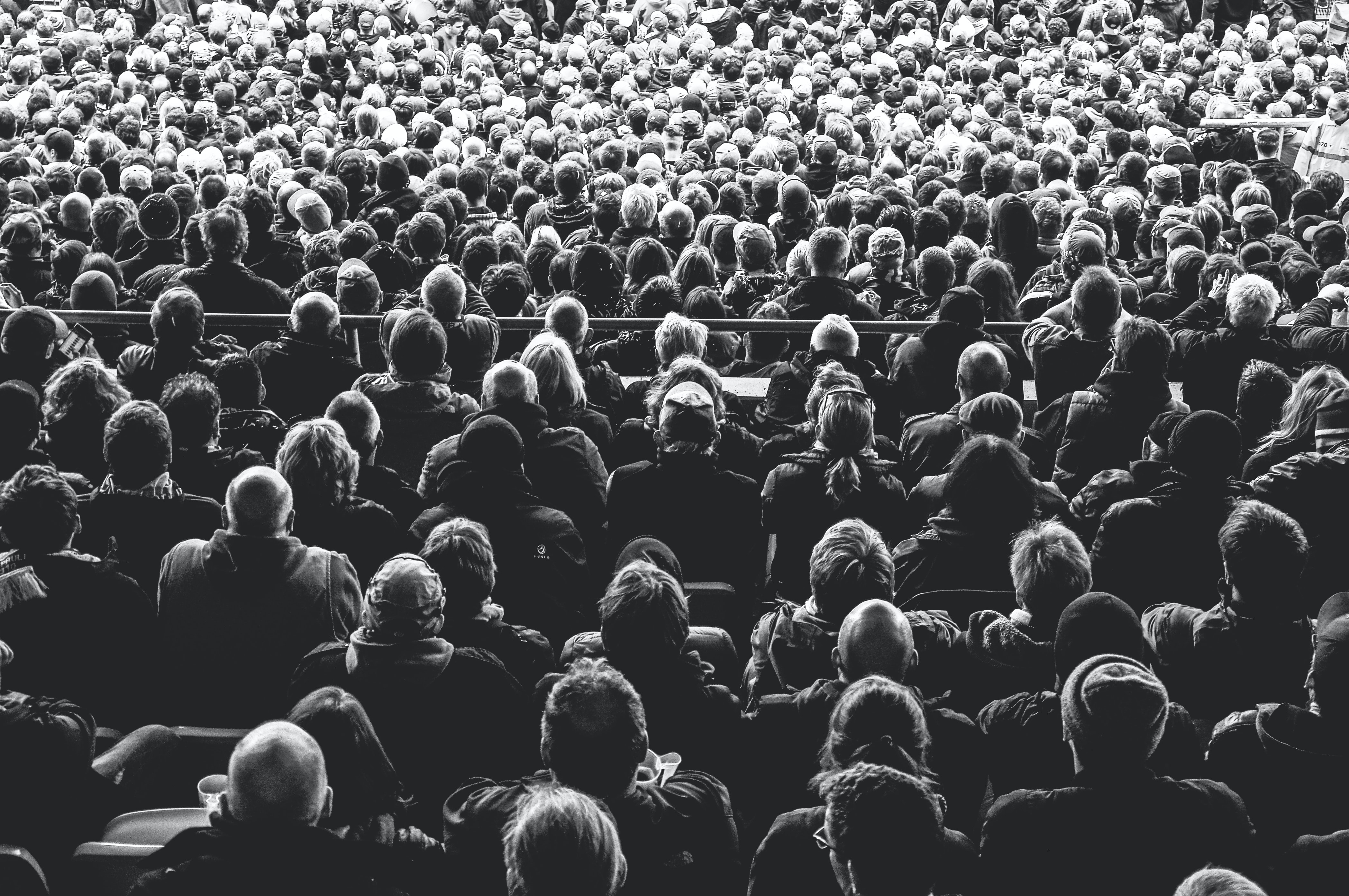 Grayscale photo of Imtech Arena Stadium, Hamburg, Germany